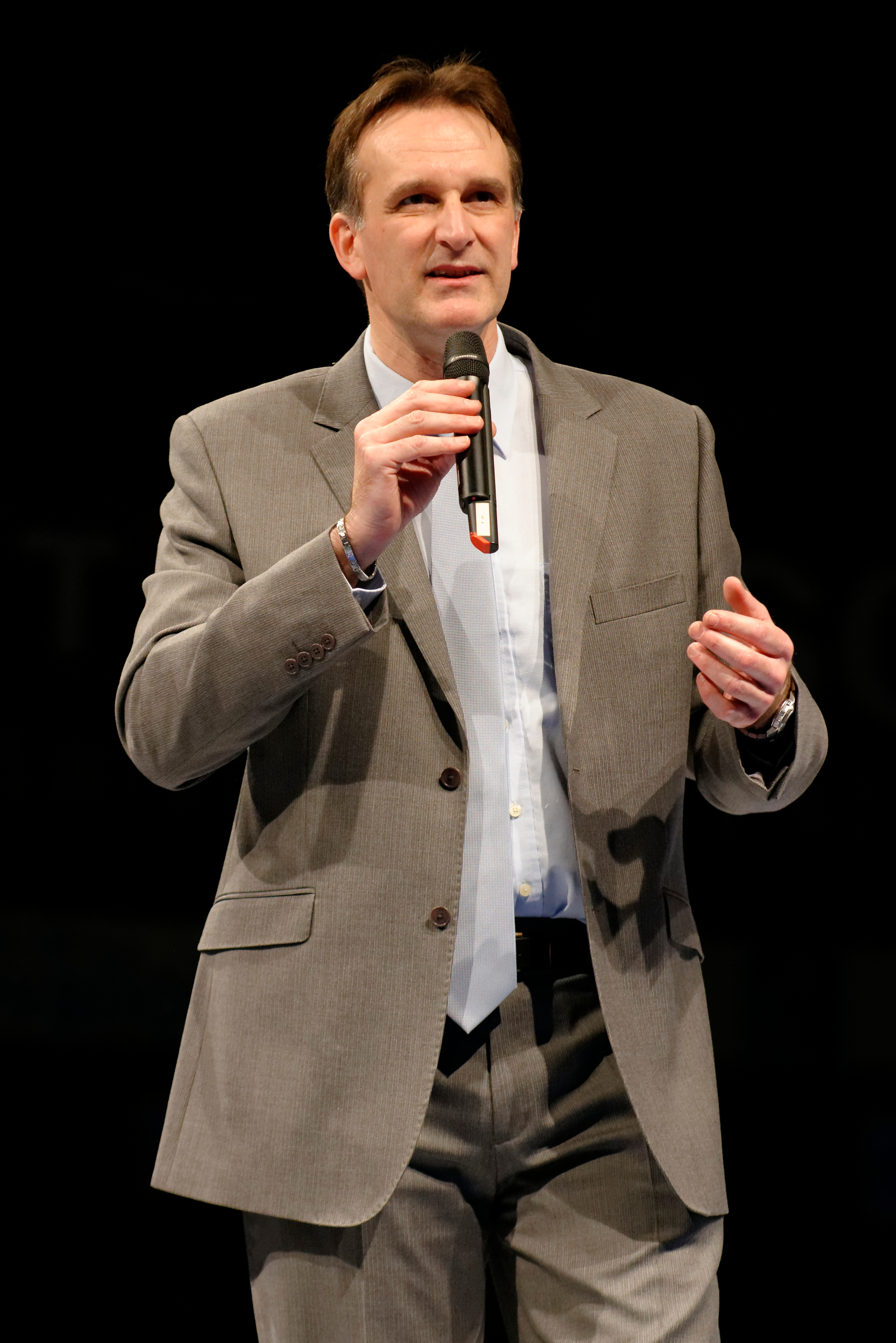 Frédéric Delpla opens the Masters à l'épée 2013.